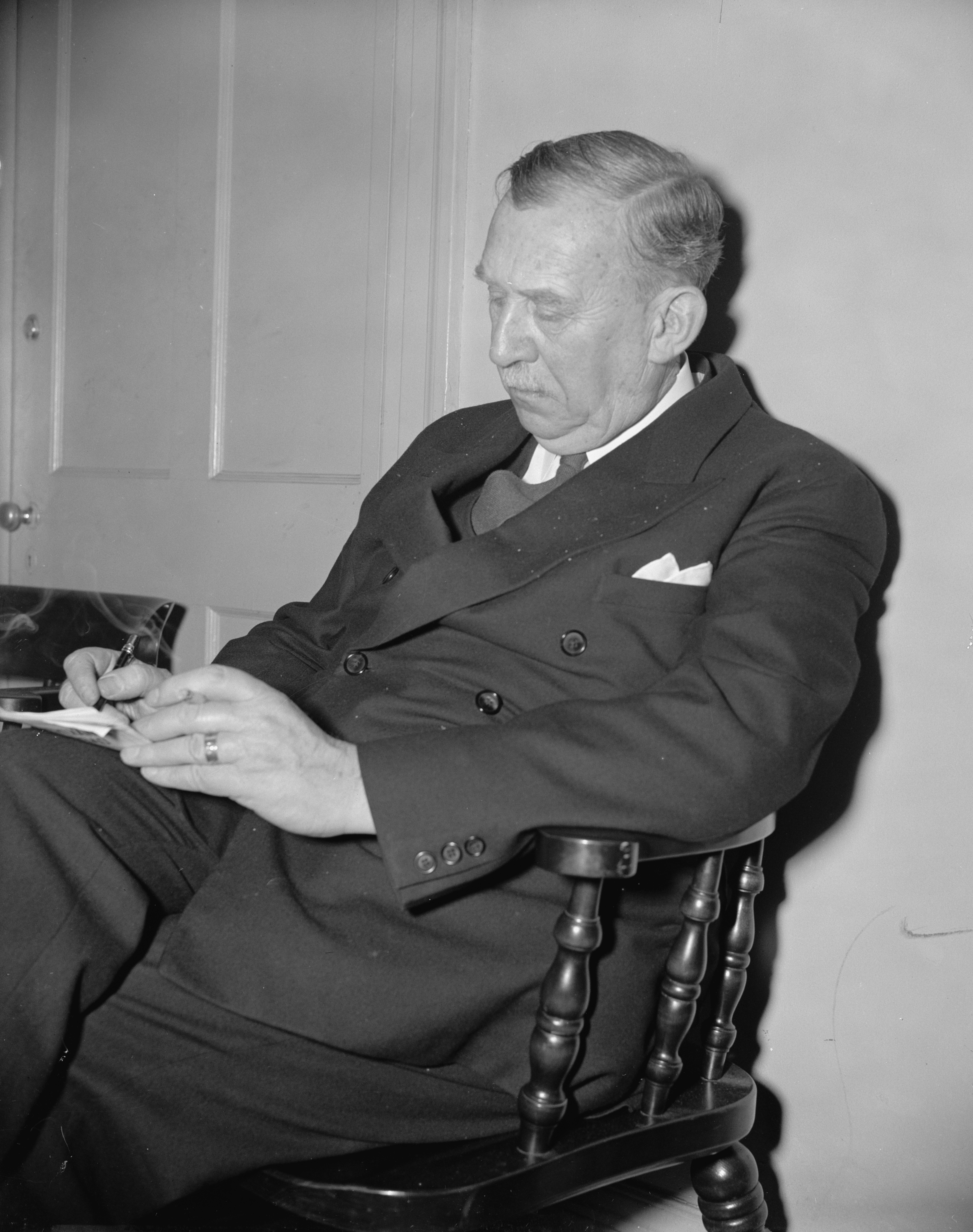 Title: Noted member of Natural History Museum staff. Washington, D.C., April 26. A new informal photograph of Dr. Walter Granger, of the American Museum of Natural History in New York City Abstract/medium: 1 negative : glass ; 4 x 5 in. or smaller